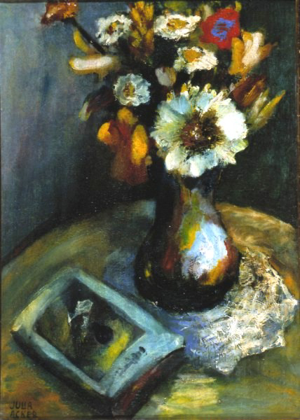 Flower colours